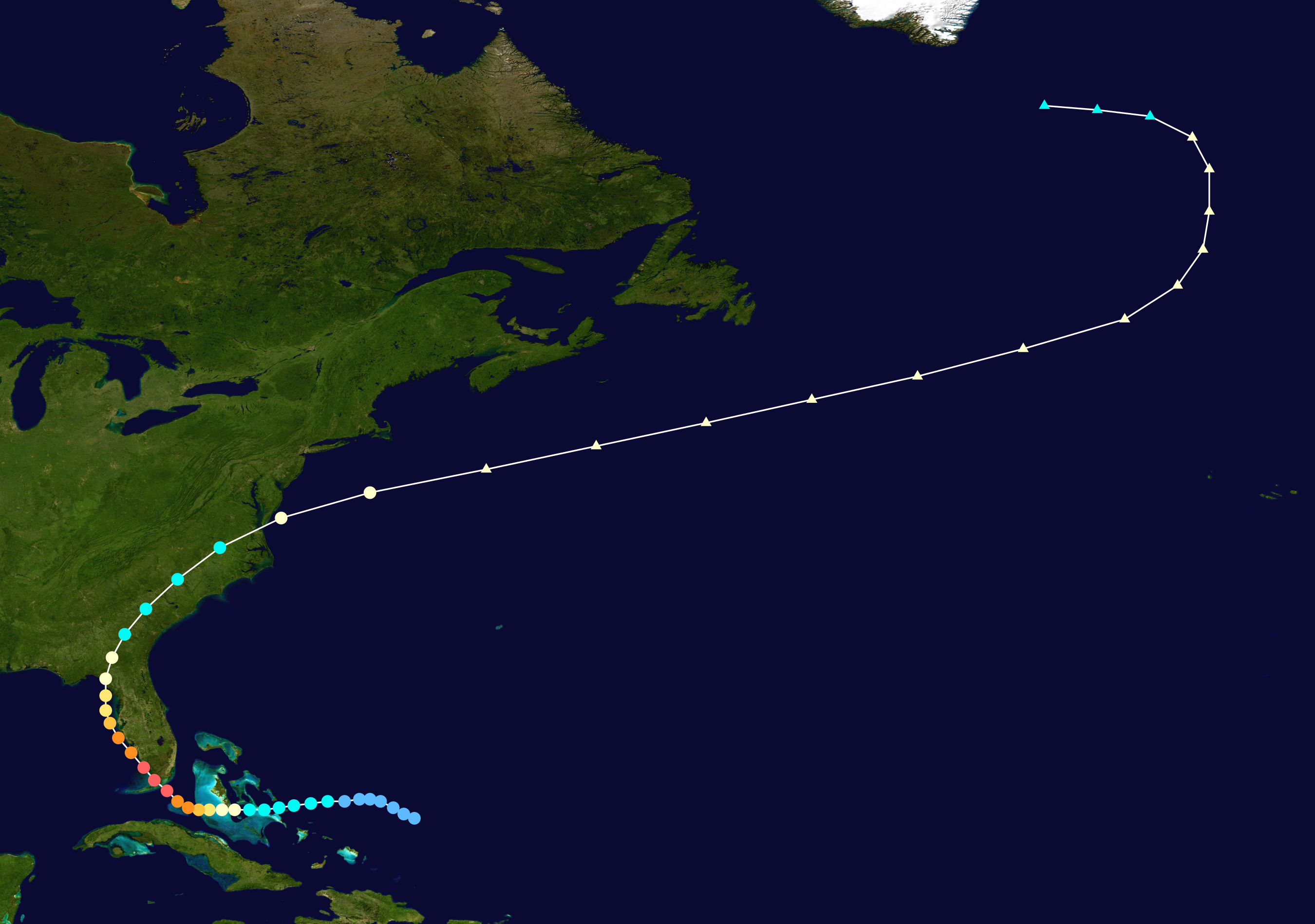 1935 Labor Day hurricane track. Uses the color scheme from the Saffir-Simpson Hurricane Scale.